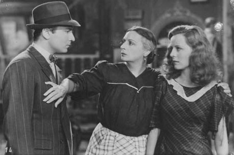 Bruma en el riachuelo- película argentina